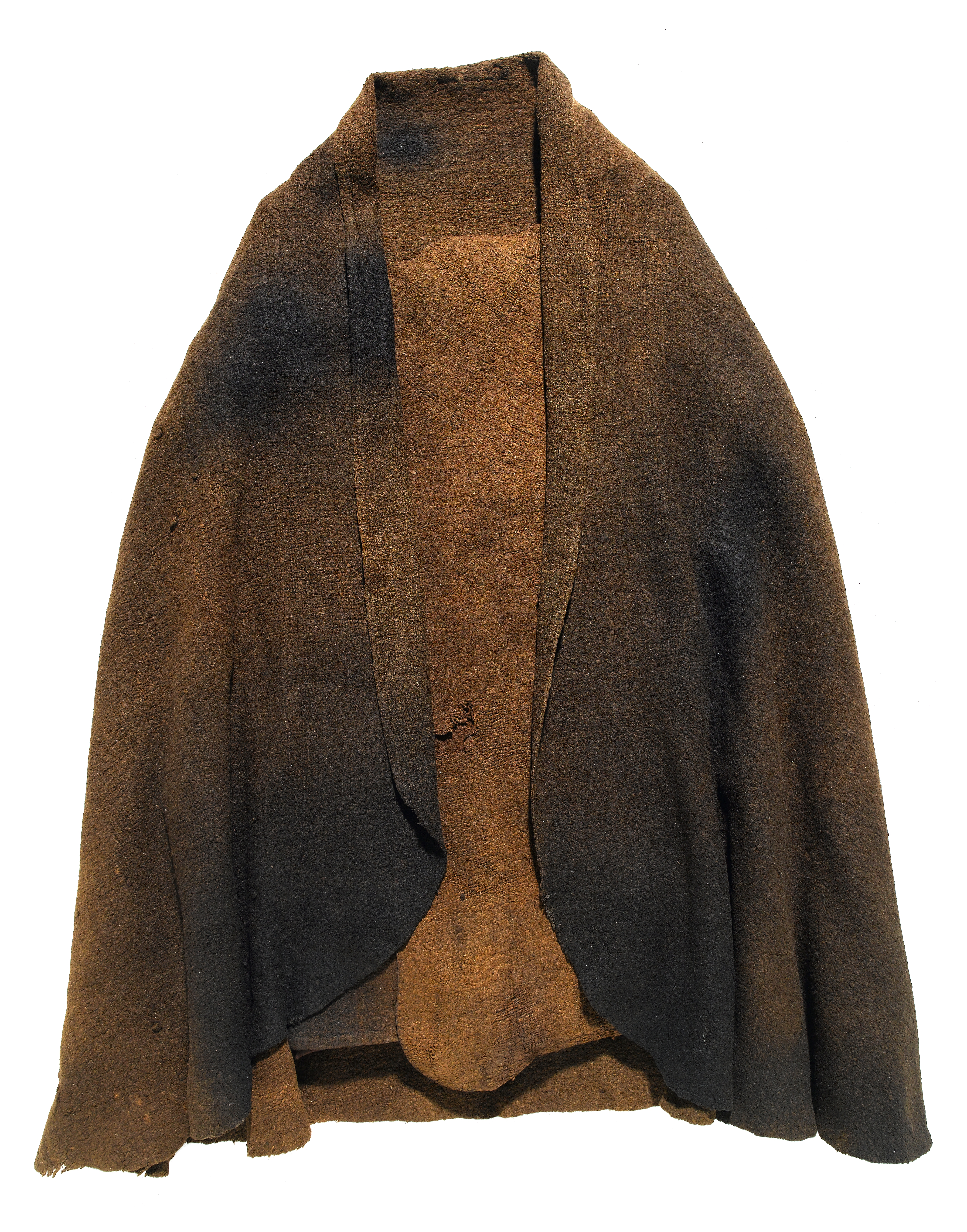 Coat (B3320-B3321) from mound of Muldbjerg, Ringkøbing, Denmark